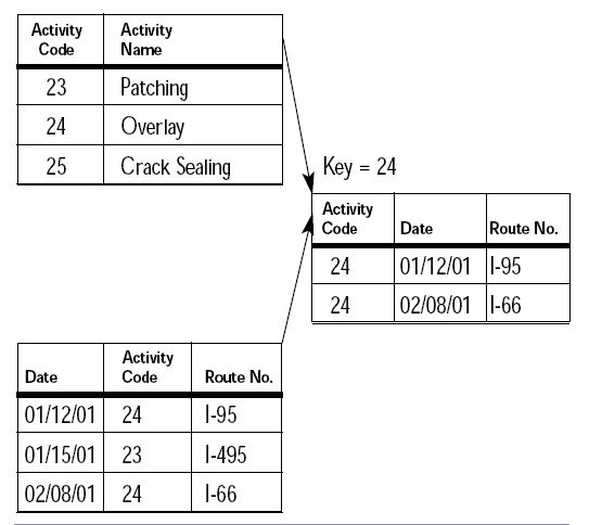 Relational model Data items organized as a set of formally described tables from which data can be accessed or reassembled in many ways without having to reorganize the database tables. Each table (sometimes called a relation) contains one or more data categories in columns. Each row contains a unique instance of data for the categories defined by the columns.